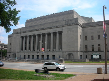 North (front) of the Kiel Opera House in Downtown St. Louis, Mo